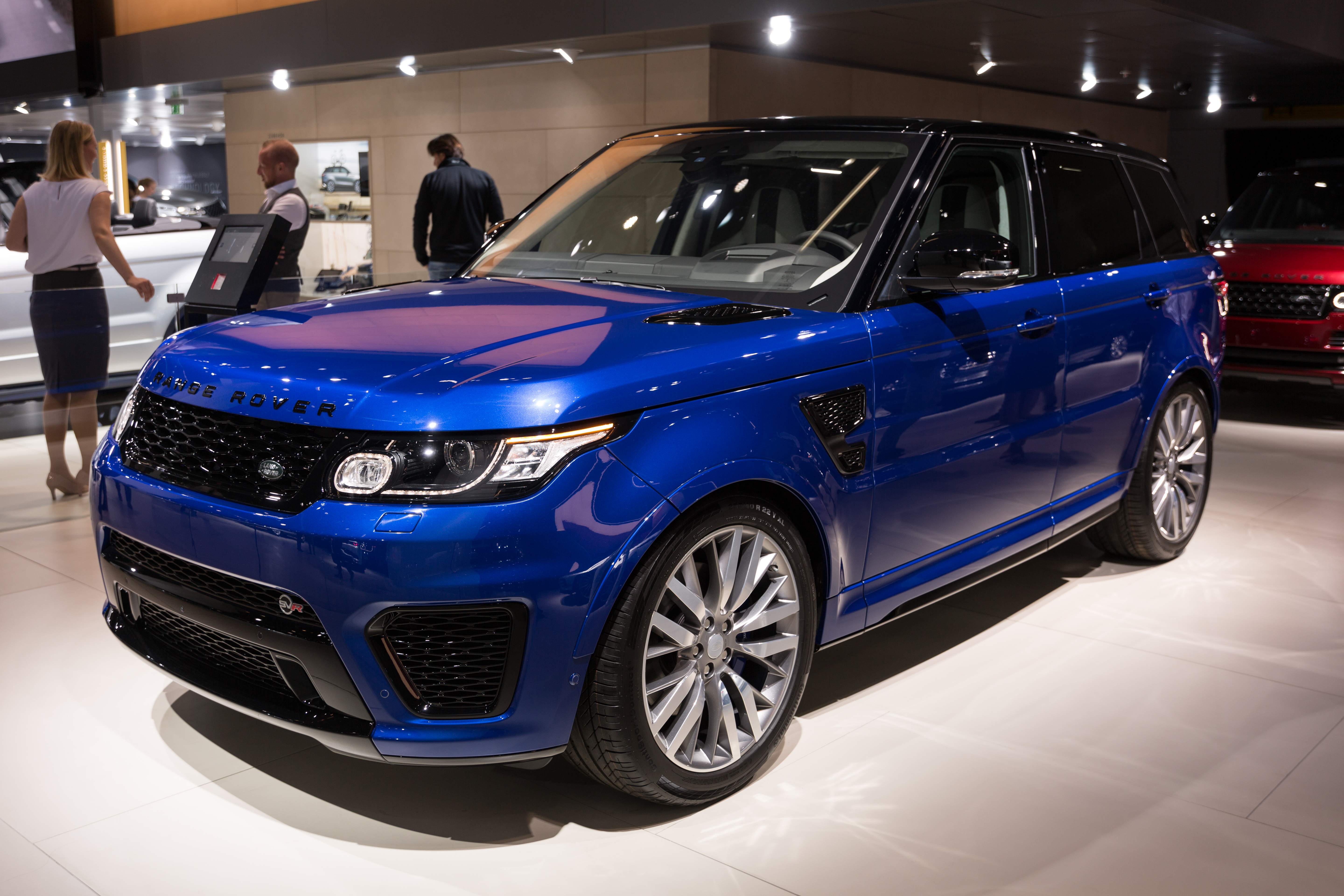 Range Rover Sport SVR, IAA 2017